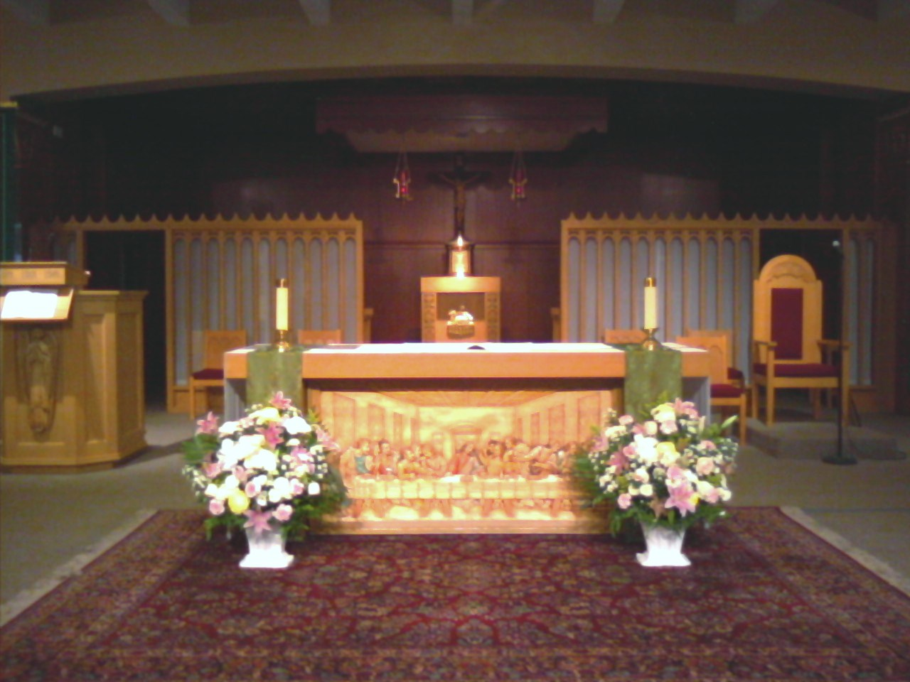 Lower Church Altar adorned with Last Supper Hand Carved by Gregor Betz in 1973. (2008)